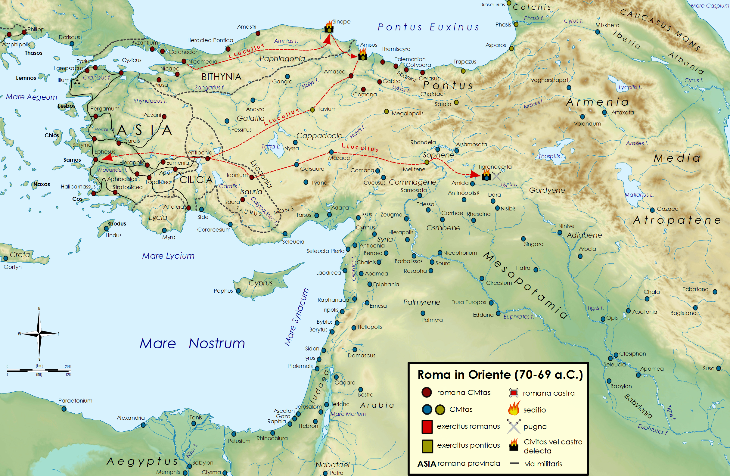 Roman republic in the Near East in 70-69 B.C., during the third Mithridatic War